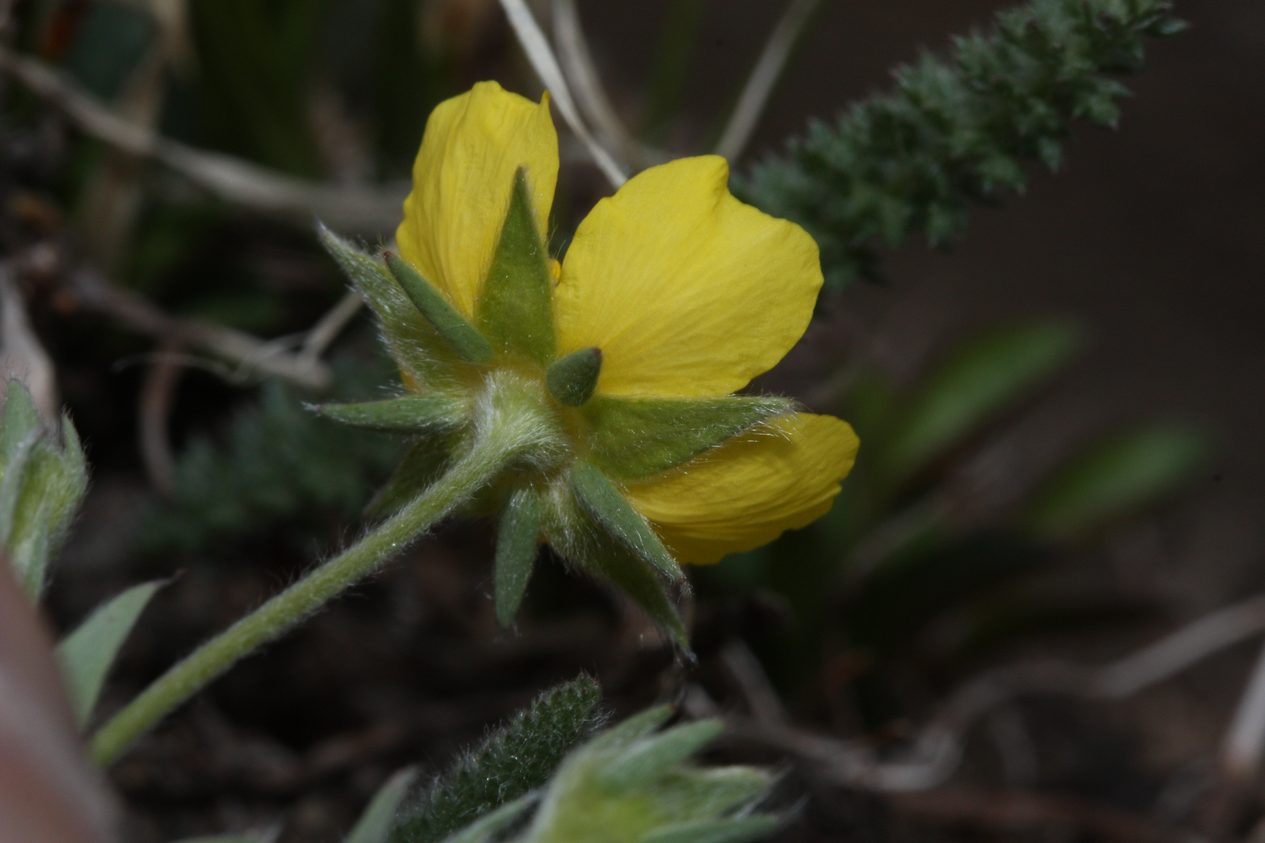 Varileaf Cinquefoil, Different-leaved Cinquefoi